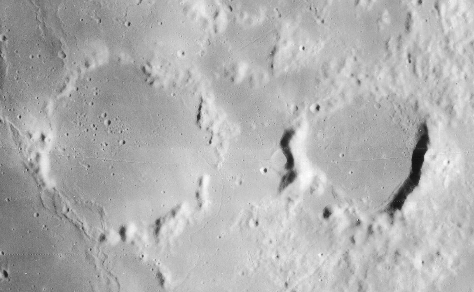 Lubiniezky E crater (left) and A (right), northwest of Lubiniezky, on the moon.